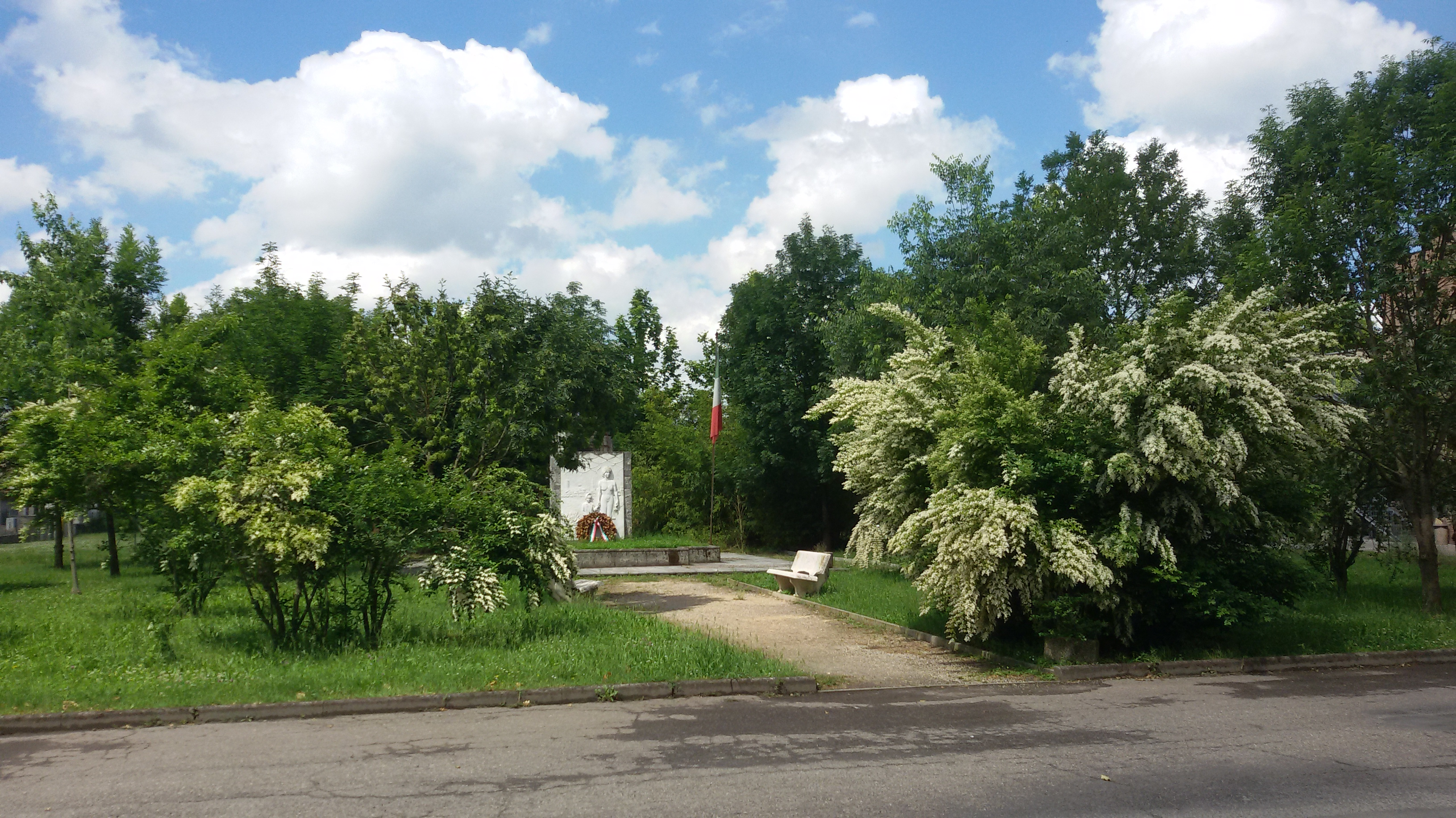 Monument